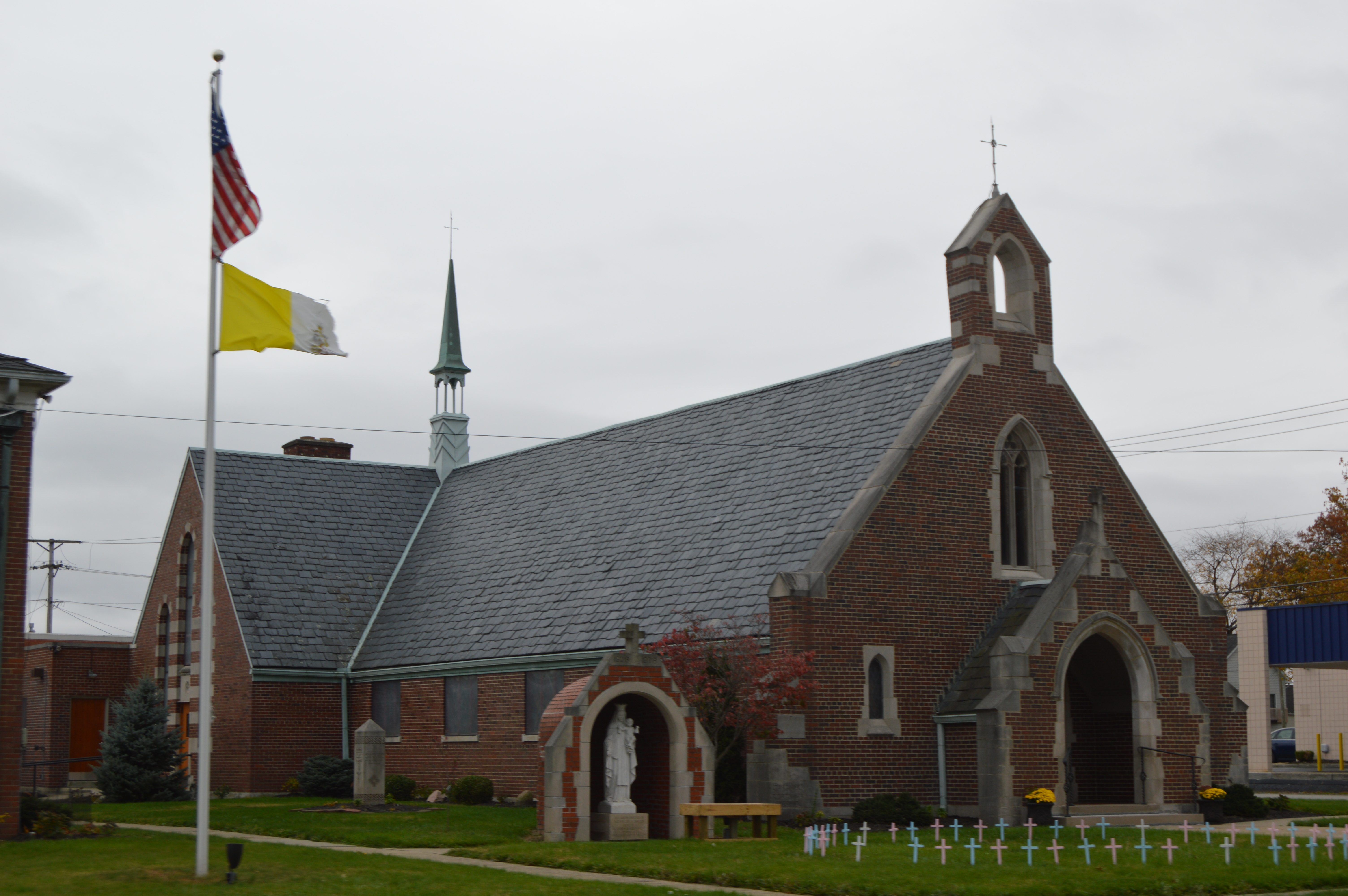 Front and eastern side of Our Lady of Mount Carmel Catholic Church, located at 5133 Walnut Street (State Route 79) in Buckeye Lake, Ohio, United States.